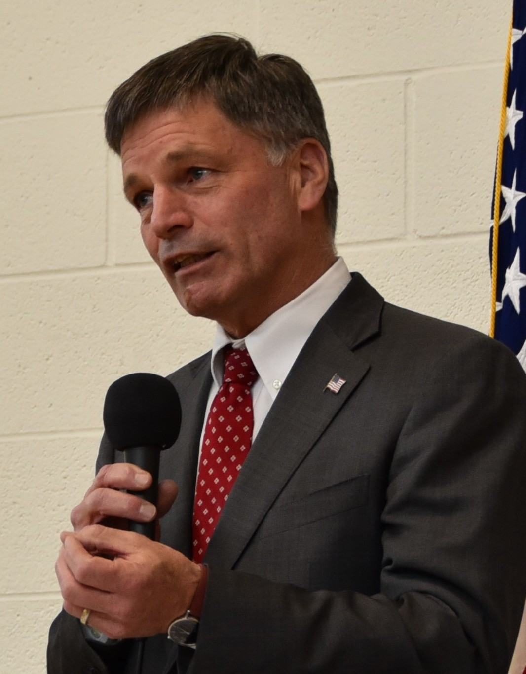 Wyoming Governor Mark Gordon